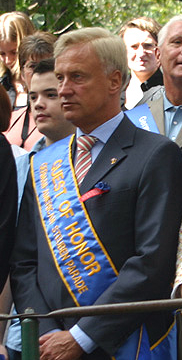 Ole von Beust, First Mayor of Hamburg visiting as a guest of honor the German-American Steuben Parade in 2006